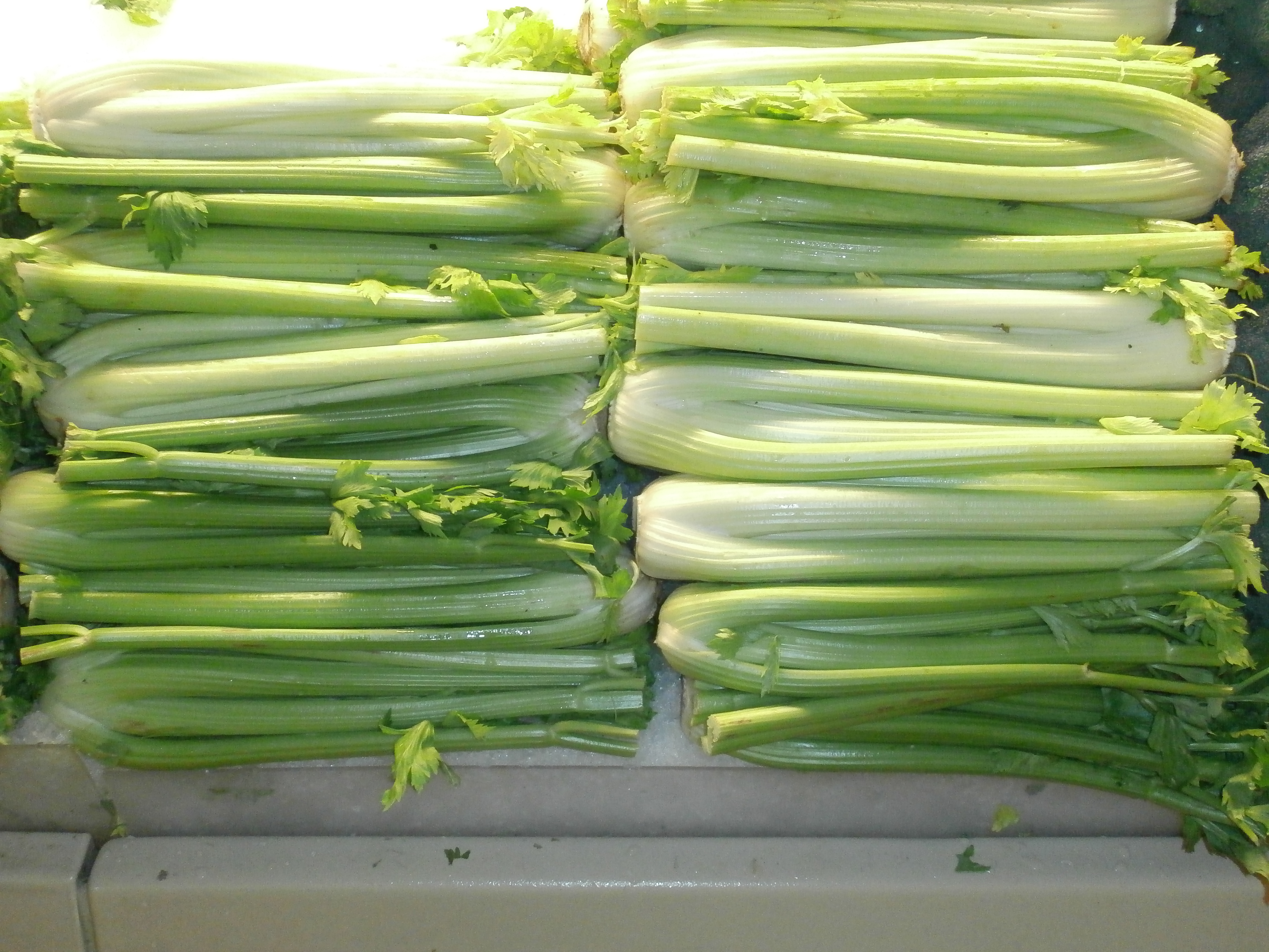 Stacks of celery bunches in a grocery store.